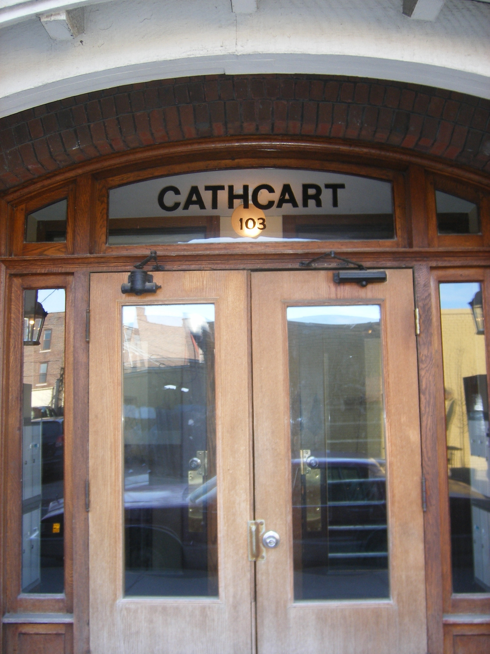 Entrance to The Cathcart, located at 103 E. Ninth Street in Indianapolis, Indiana, United States. Built in 1909, it is listed on the National Register of Historic Places as one of the "Apartments and Flats of Downtown Indianapolis Thematic Resources".